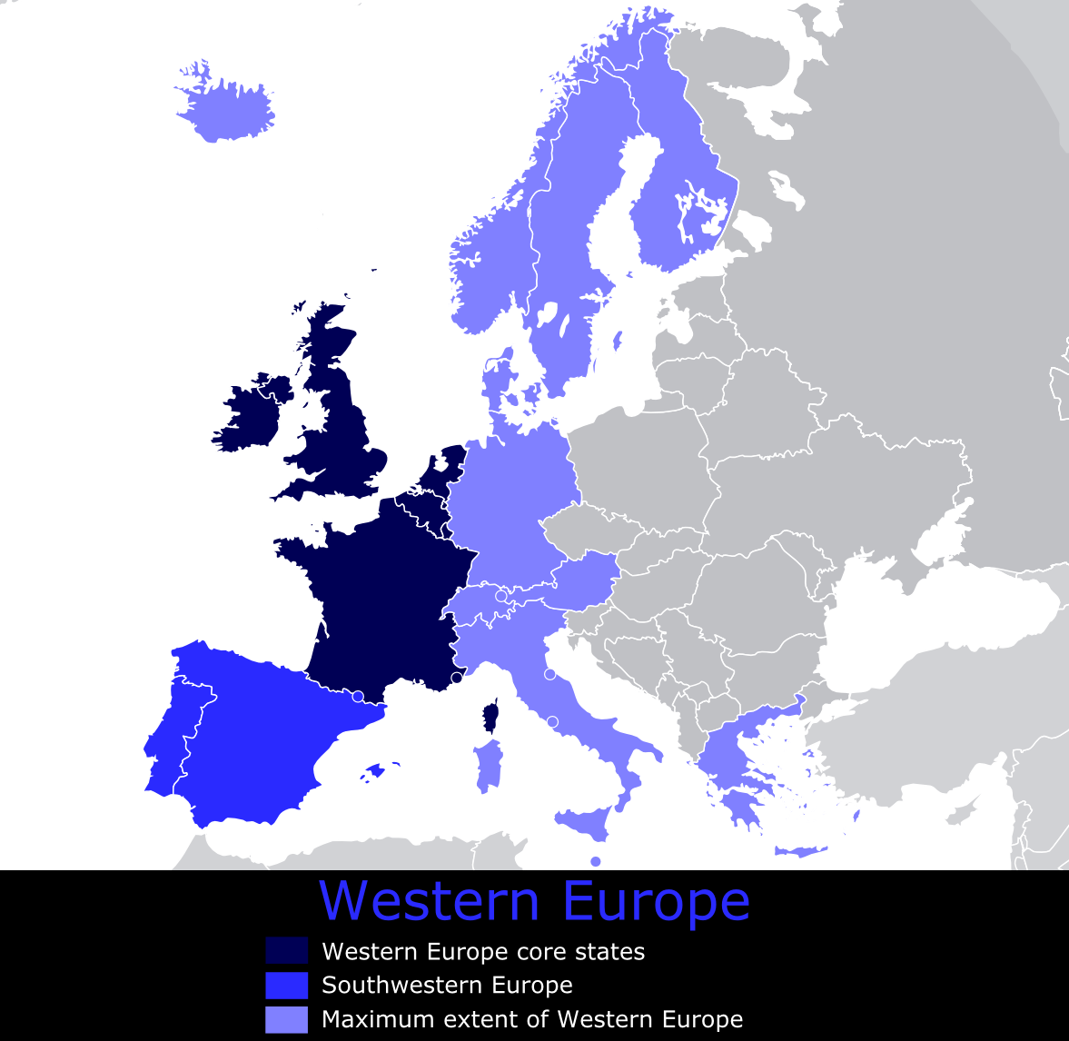 Modern View of Western Europe.